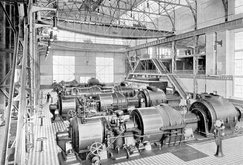 Buenos Aires Compañía Alemana Transatlántica de Electricidad CATE - Usina Dock Sud. Gran usina 1ra Sección Ca 1910